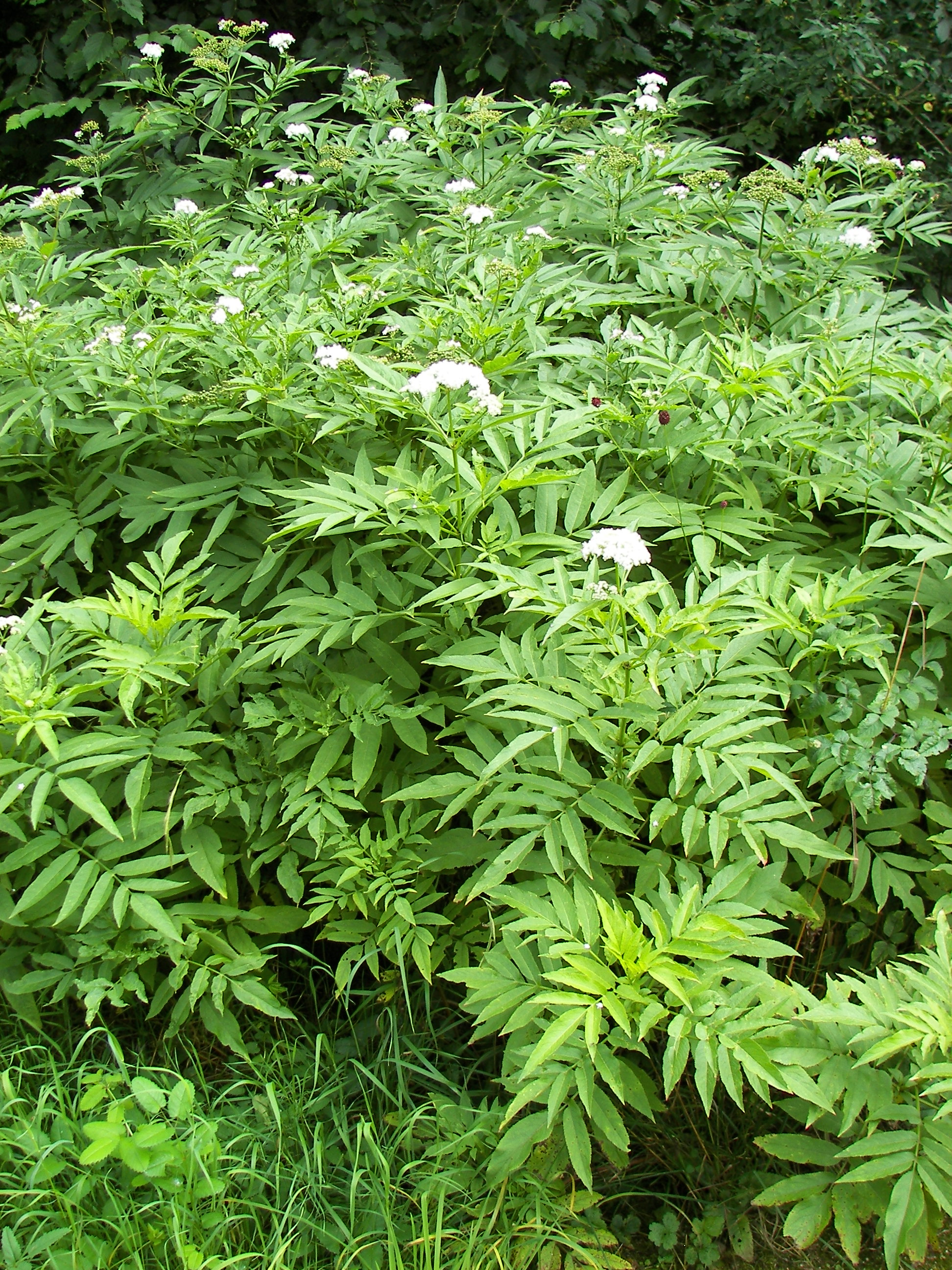 Danewort (Sambucus ebulus), Location: Botanical Garden Frankfurt, Hesse, Germamy